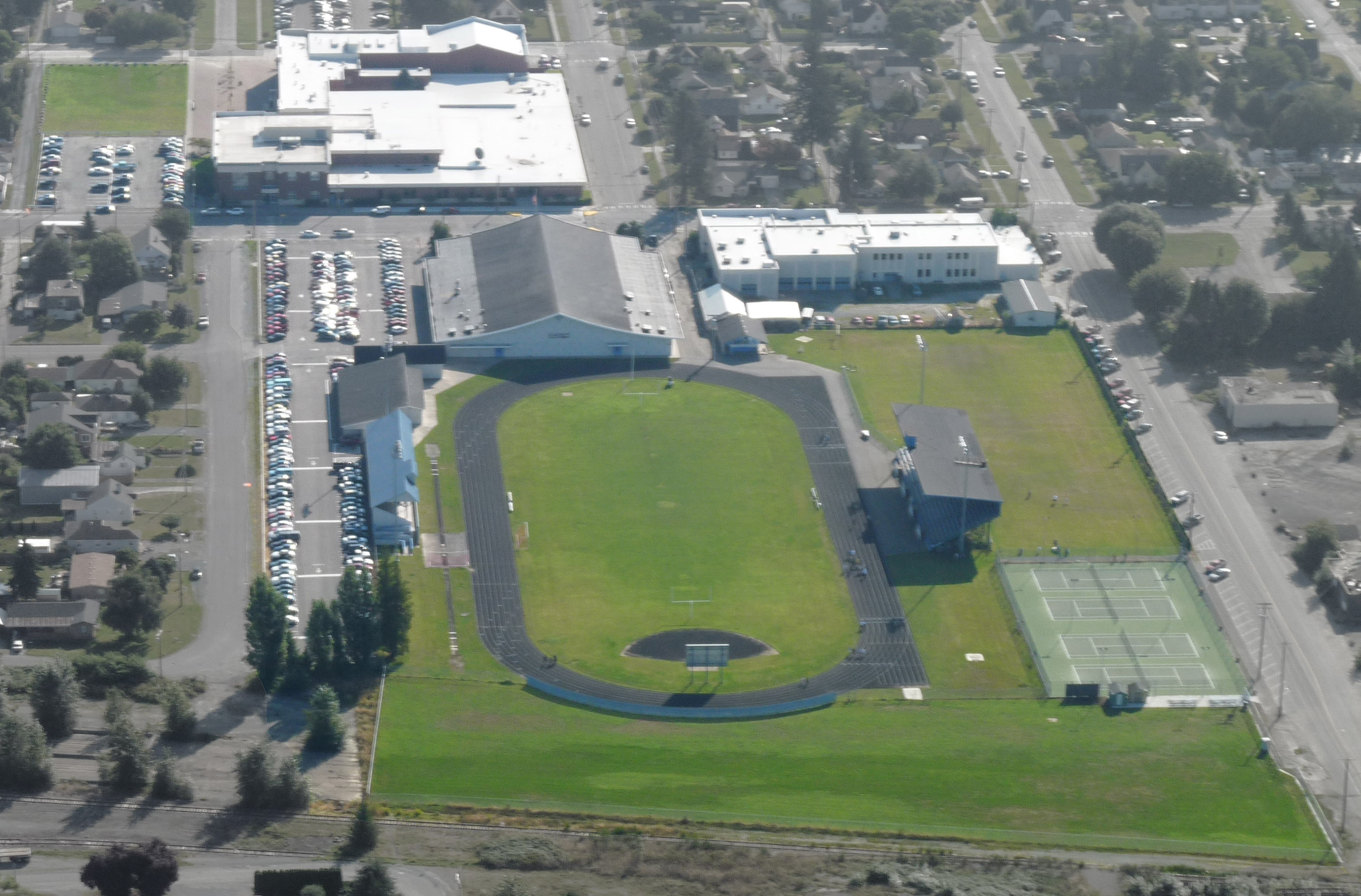 This is an aerial photo taken in September 2008 of Sedro-Woolley High School looking east upon the grounds. Photoshop Elements was employed to deaden the background.